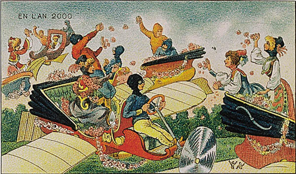 France in 2000 year (XXI century). Air Festival of Flowers. France, paper card.